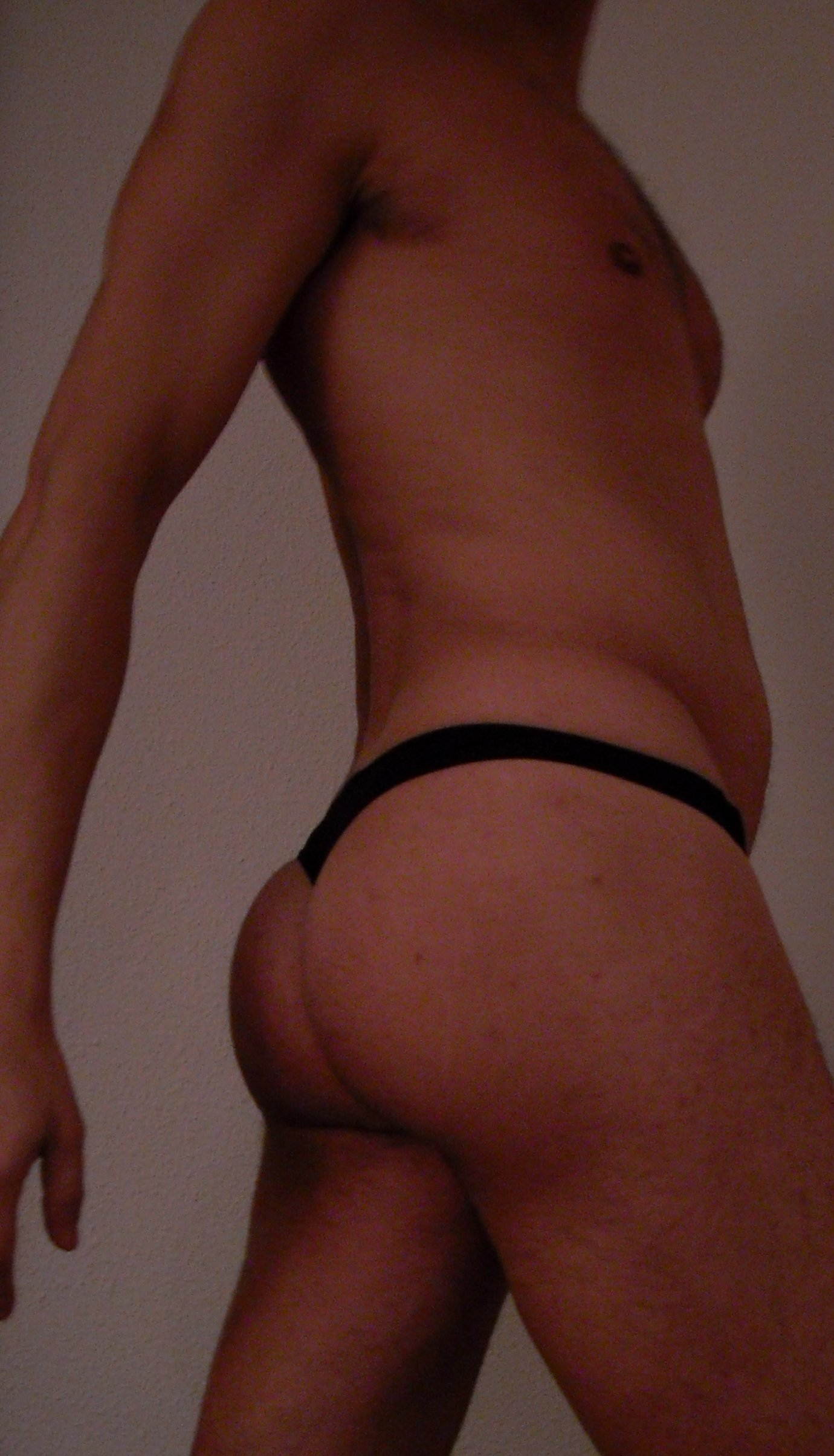 Man wearing a black string